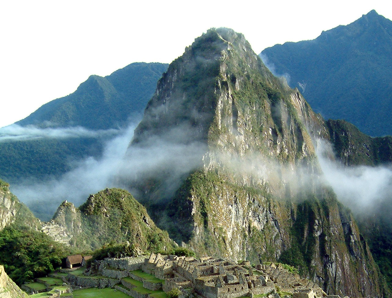 This is a crop and derivative of Image:Peru Machu Picchu Sunset.jpg, taken the 9th of April 2005 6.54.